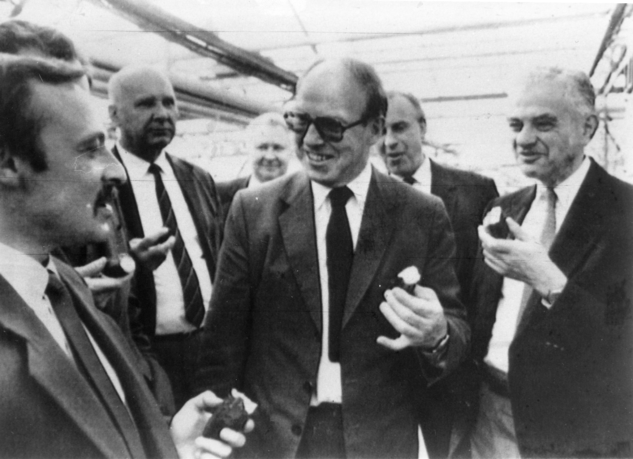 Dr. Hans Blix, IAEA Director General, visiting the site of the Chernobyl nuclear plant accident in May 1988. (Chernobyl, 1988) Copyright: IAEA Imagebank Photo Credit: USFCRFC